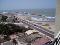 View of El Cabrero district from Altamar del Cabrero Building